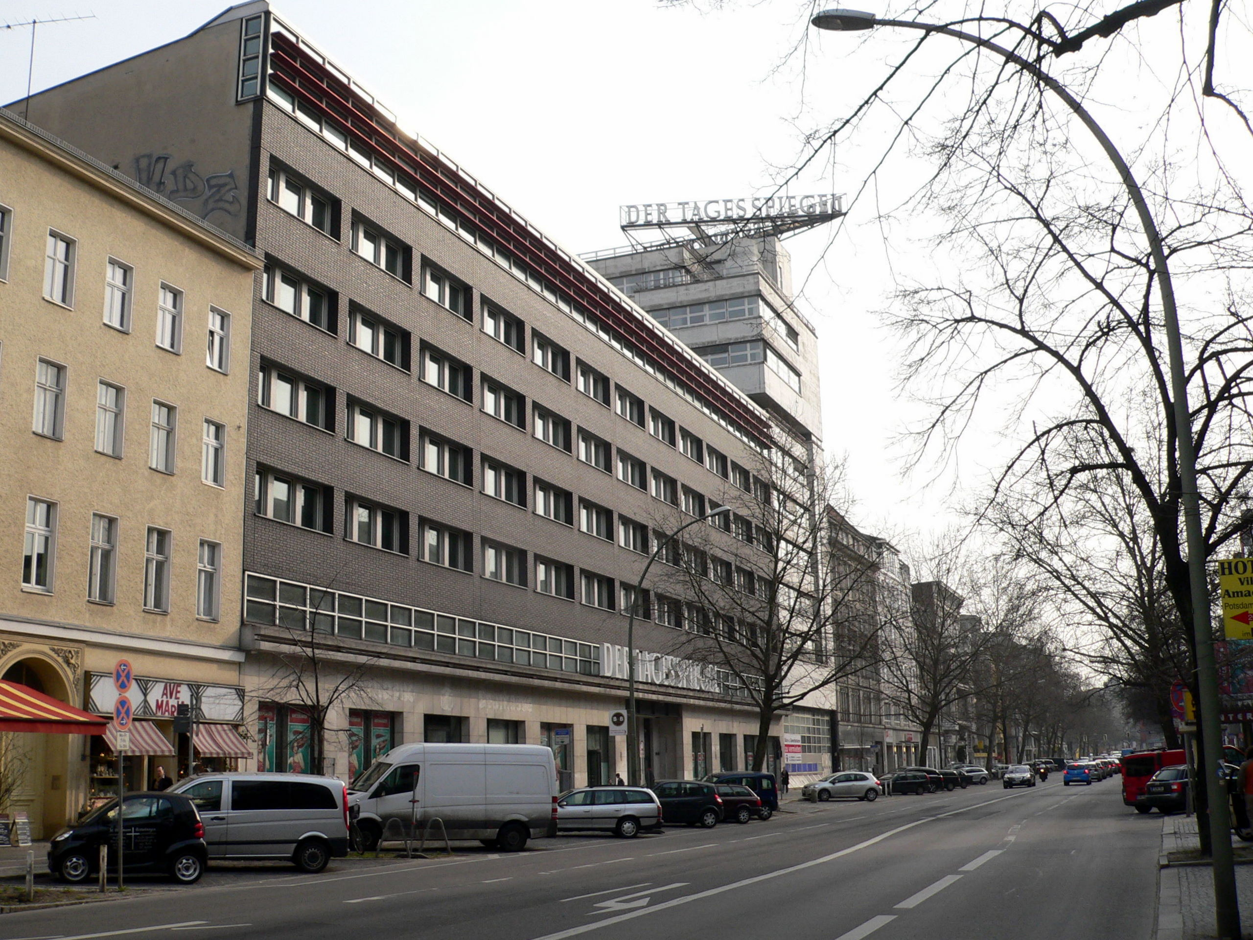 Berlin-Tiergarten, Potsdamer Straße 87, former Tagesspiegel building.